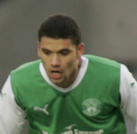 Victor Palsson playing for Hibernian FC in a Scottish Premier League match against St. Mirren FC